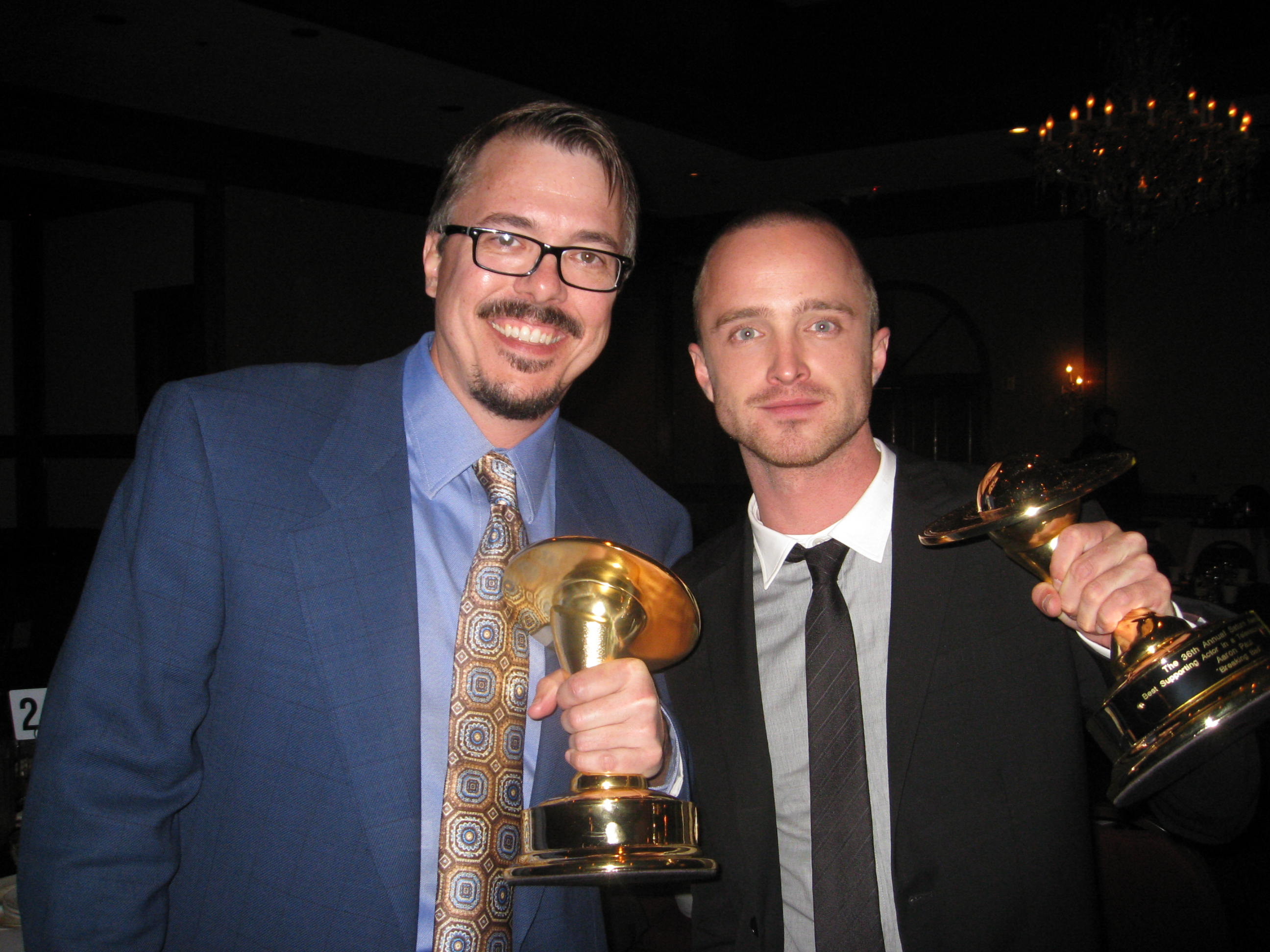 "Breaking Bad" winners Vince Gilligan and Aaron Paul